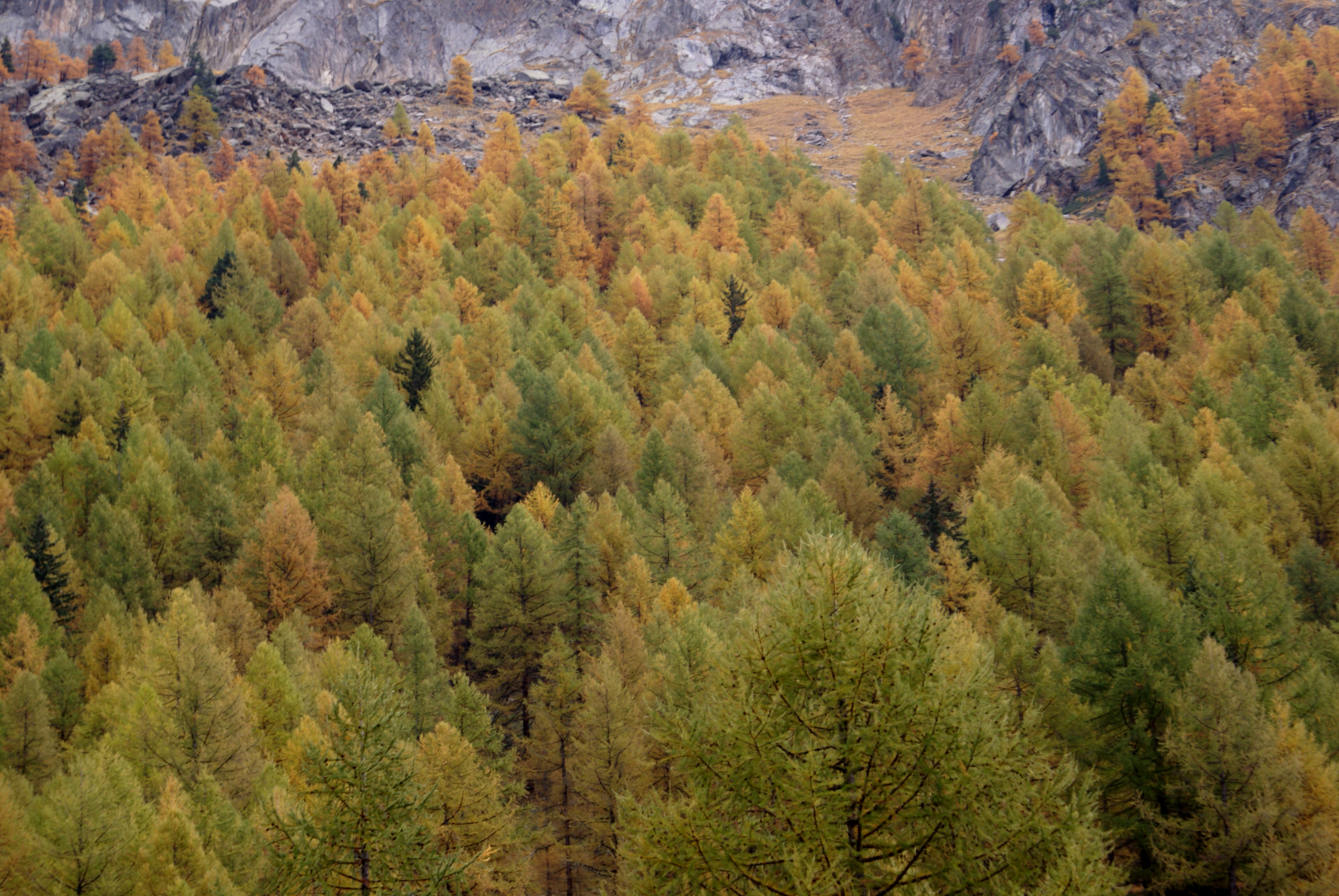 Autumn colors in the Gran Paradiso National Park, Valle d'Aosta, Italy. This is a photo of a monument which is part of cultural heritage of Italy.